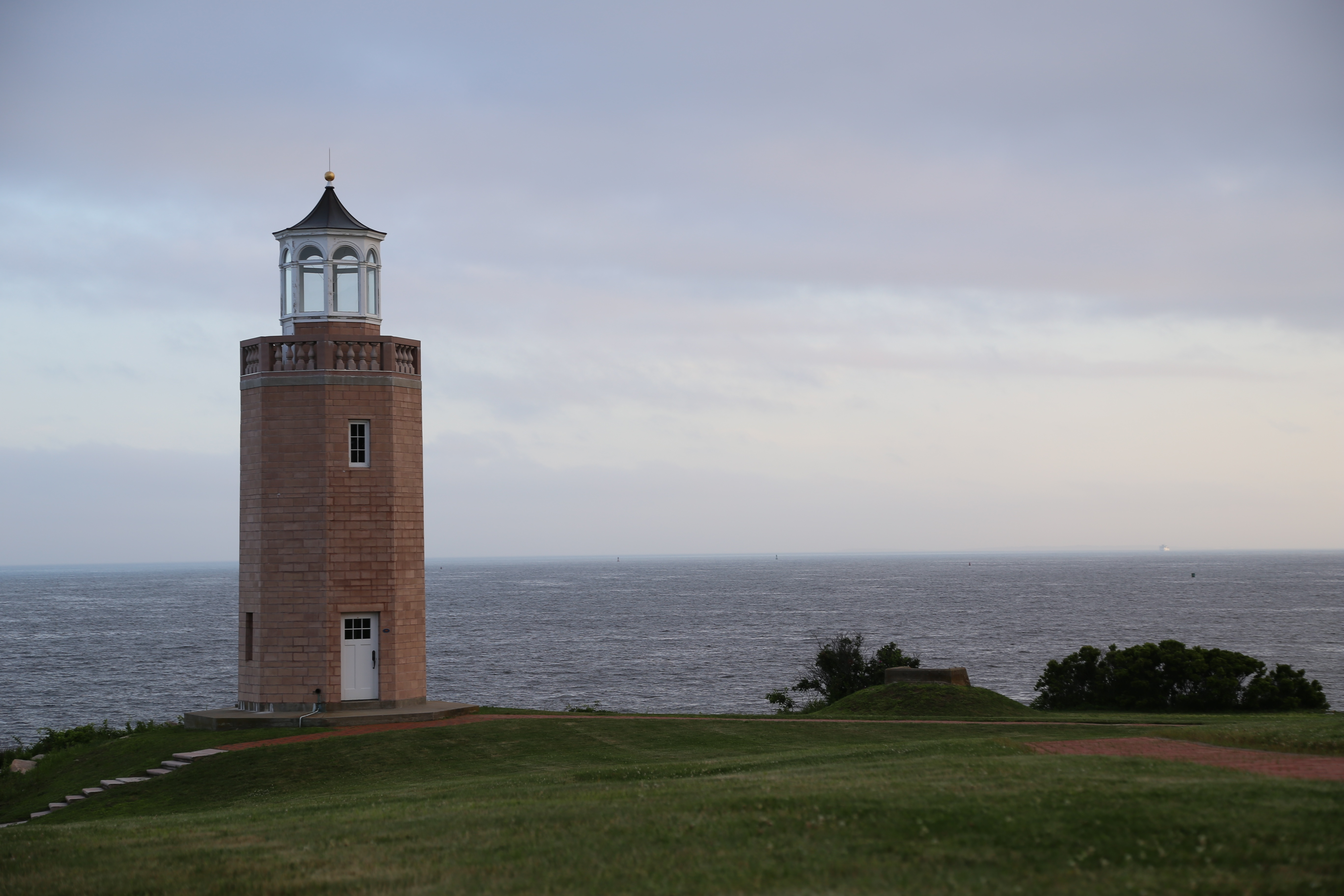 This is the Avery Point lighthouse, post renovations, located in Groton Connecticut on the Avery Point UCONN campus.